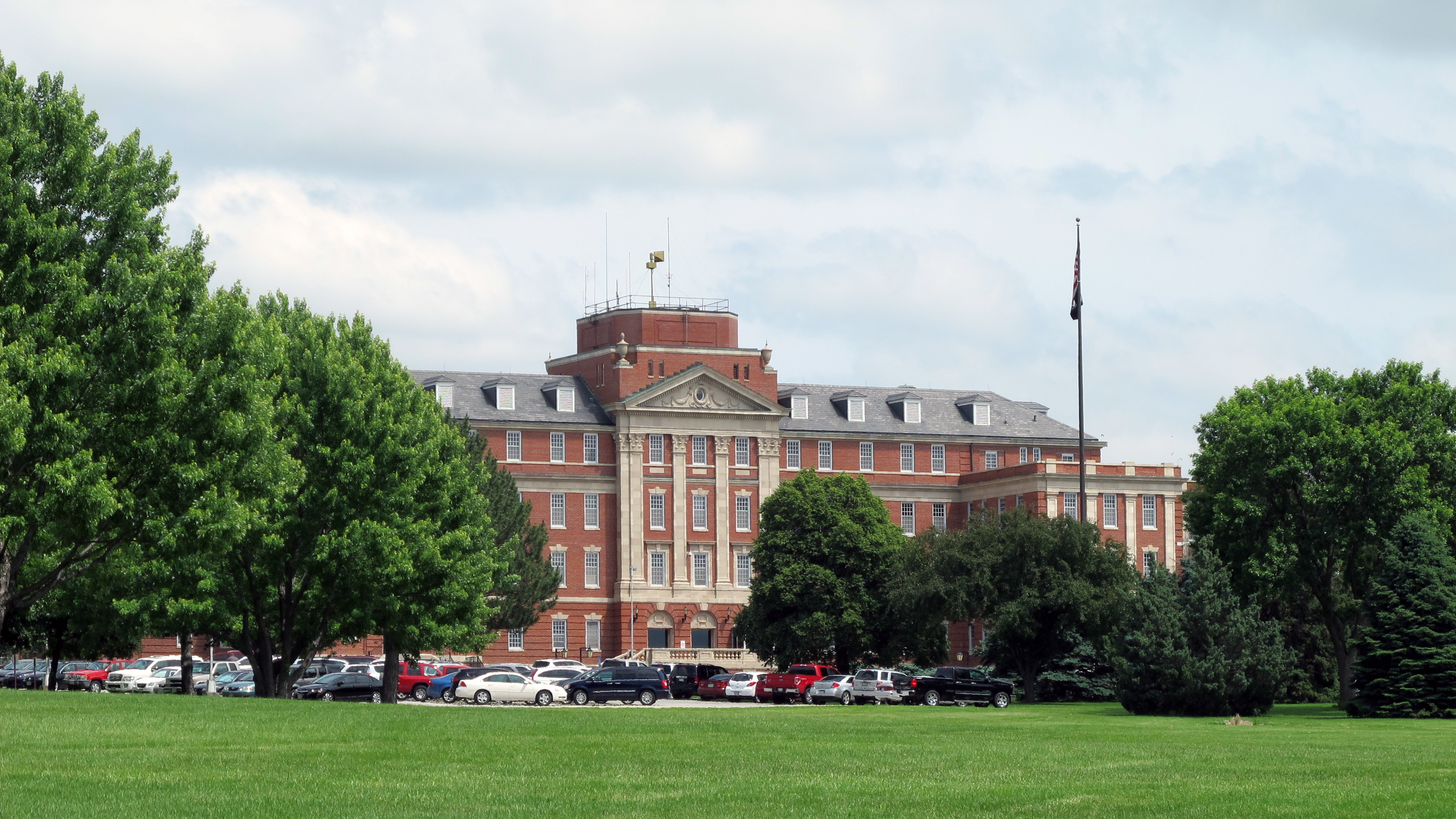 Photo of the Veterans Administration Nebraska-Western Iowa Health Care System Lincoln Community-Based Outpatient Clinic (CBOC), 600 S. 70th Street in Lincoln, Nebraska. Photo is facing nearly southeast from the east side of S. 70th Street, looking at the west (main) side of the medical center. The parade grounds can be seen in the bottom foreground of this photo.